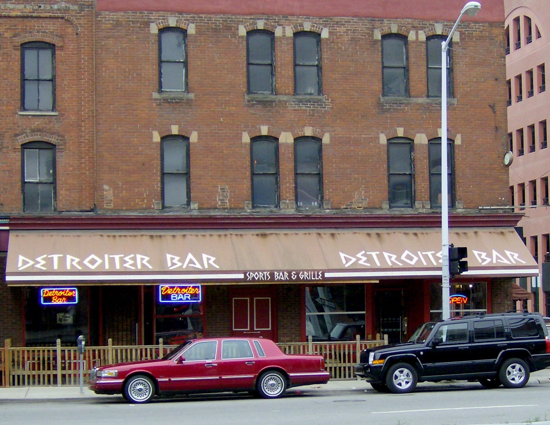 The Detroiter